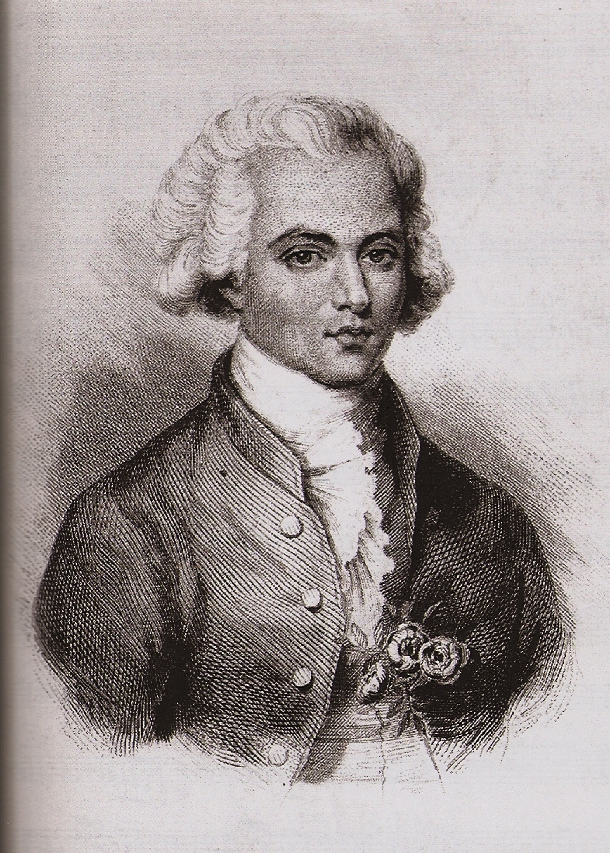 Chevalier de Saint-Georges in 1768 by Eugène de Beaumont.